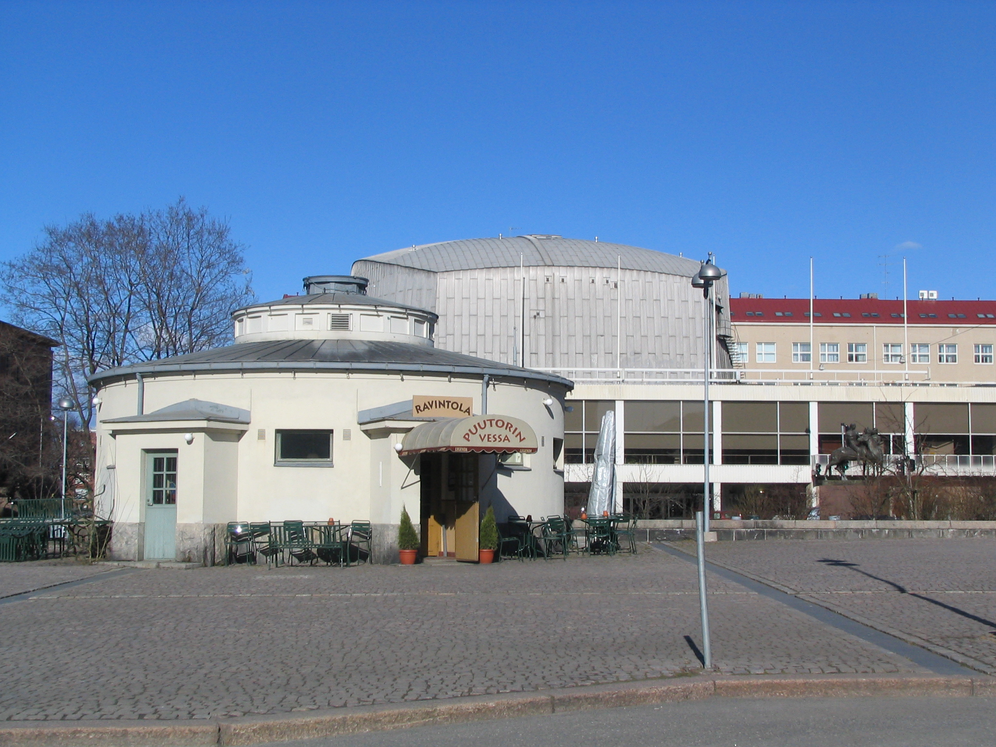 Old public WC building in city of Turku, Finland working as restaurant now.